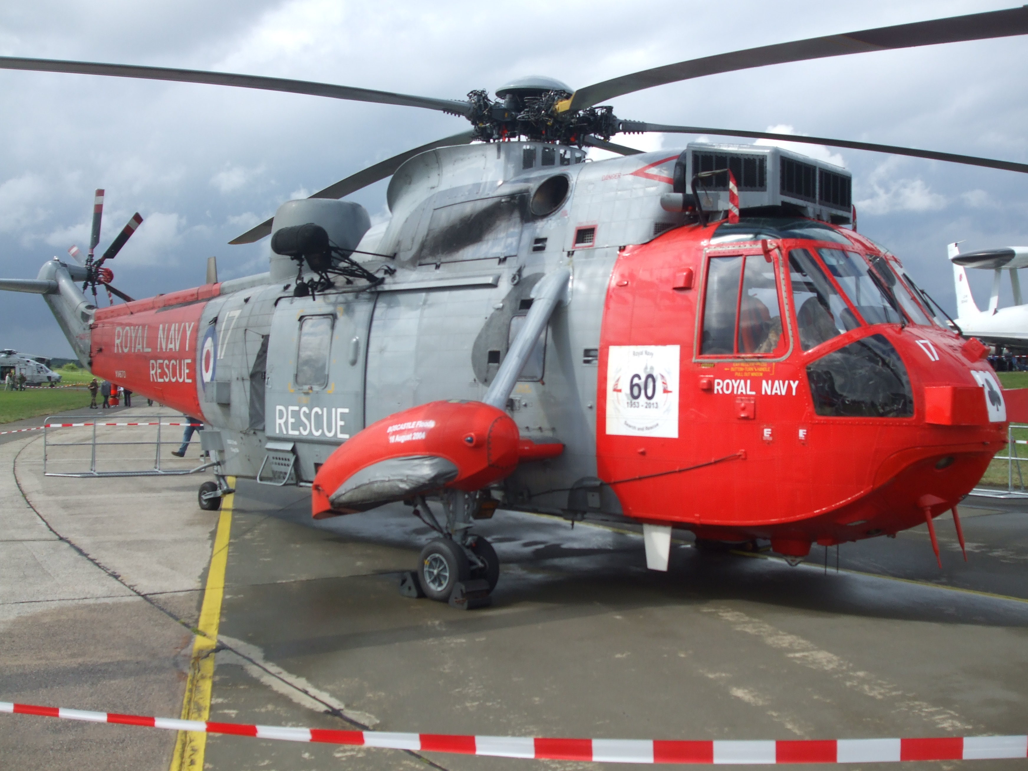 This UK Royal Navy SeaKing HAR.5 sports a special anniversary badge instead of its usual white ensign, celebrating 60 years of the Royal Navy's Search and Rescue service, which was celebrated in 2013, the very same year when Germany's Marineflieger celebrated their 100th anniversary.